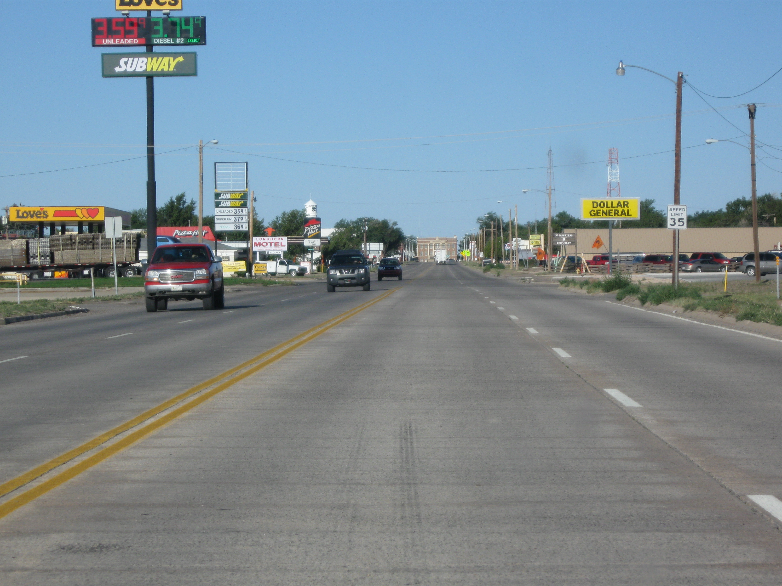 This is the main highway passing through Boise City, Oklahoma, looking west towards the Cimarron County Courthouse. September 2011.